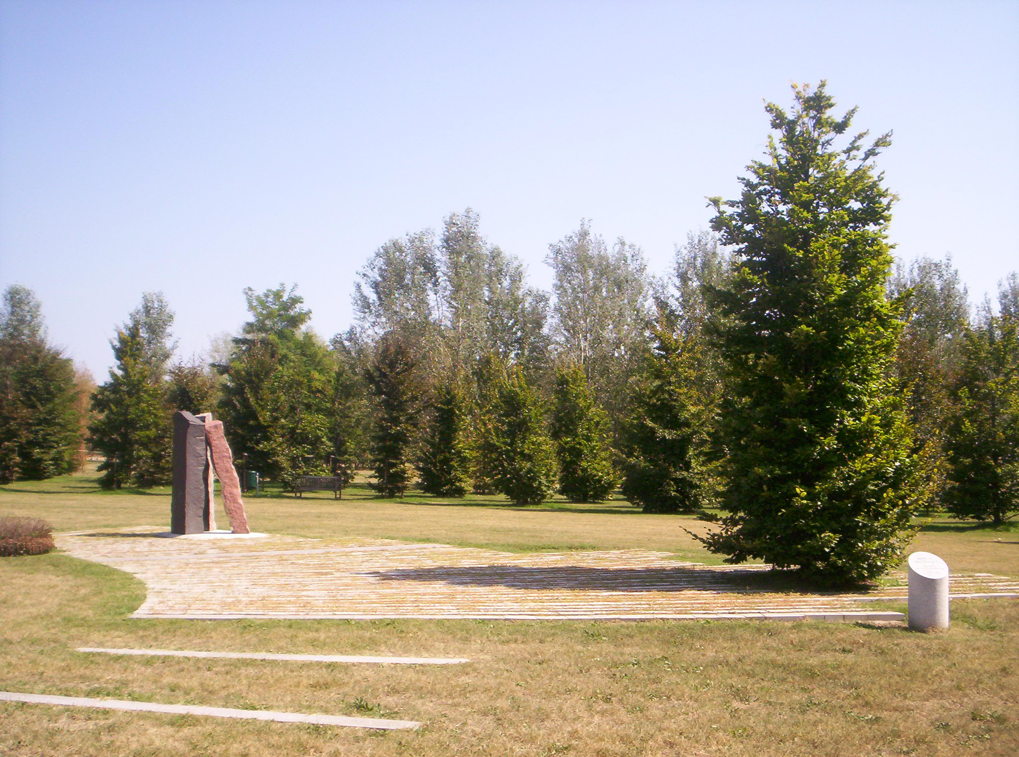 Bosco dei faggi, Milano-Linate, Italy.